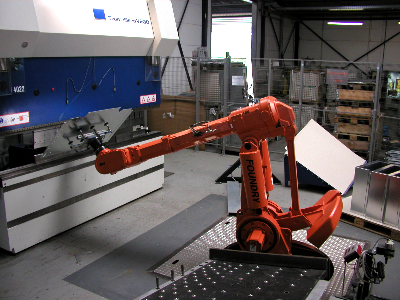 Robot handling sheet metal piece for bending.